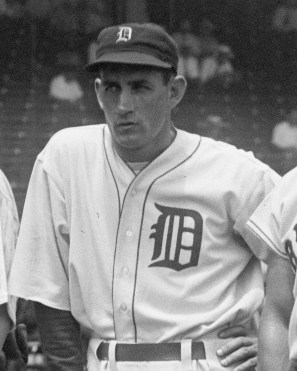 Charlie Gehringer of the Detroit Tigers, cropped from a posed picture of 1937 Major League Baseball All-Stars in Washington, DC.